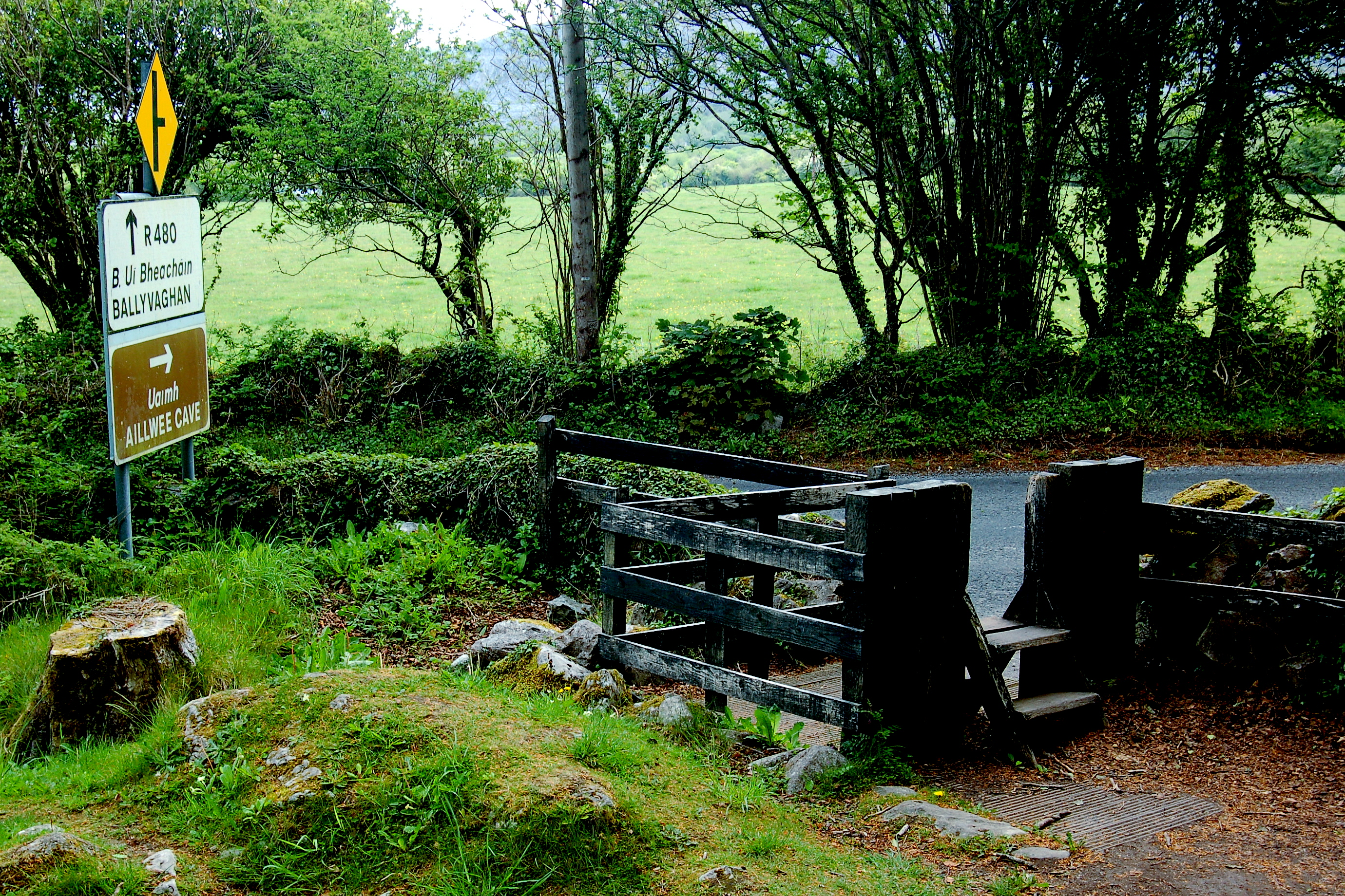 The Burren - R480 - Ballyallaban Ring Fort (An Rath) - Entrance